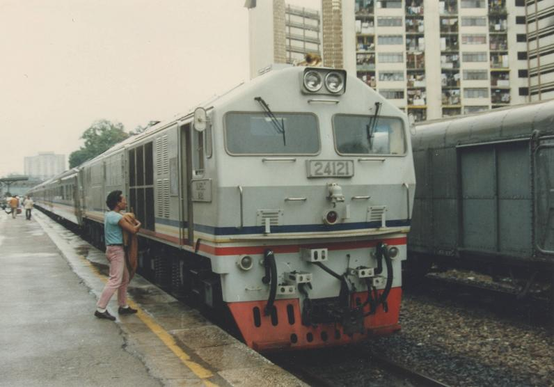 Keretapi Tanah Melayu (Malayan Railways Limited) Class 24 Diesel locomotives No.121